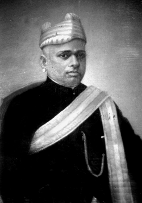 Photograph of A. R. Raja Raja Varma (1869-1918)